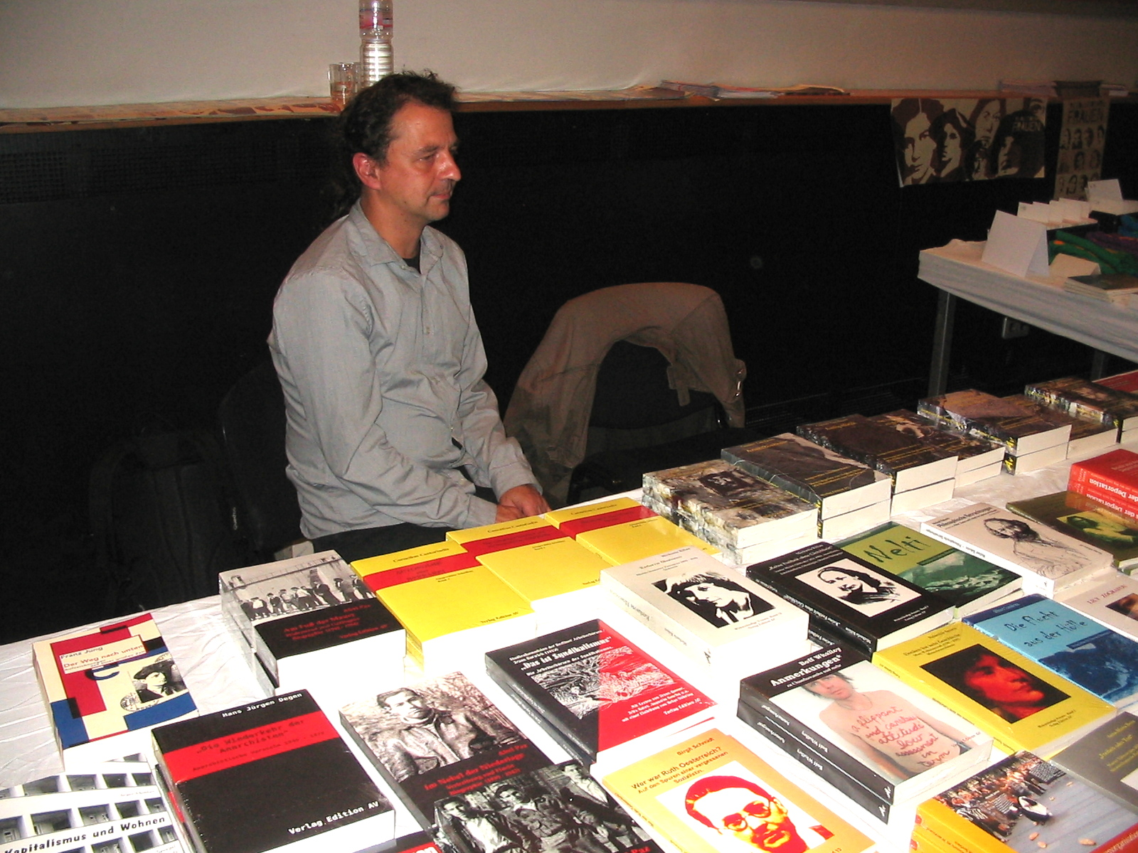 Booth of publisher Edition AV at LiMesse (libertarian media fair) 2012 in Bochum, Germany; Andreas W. Hohmann